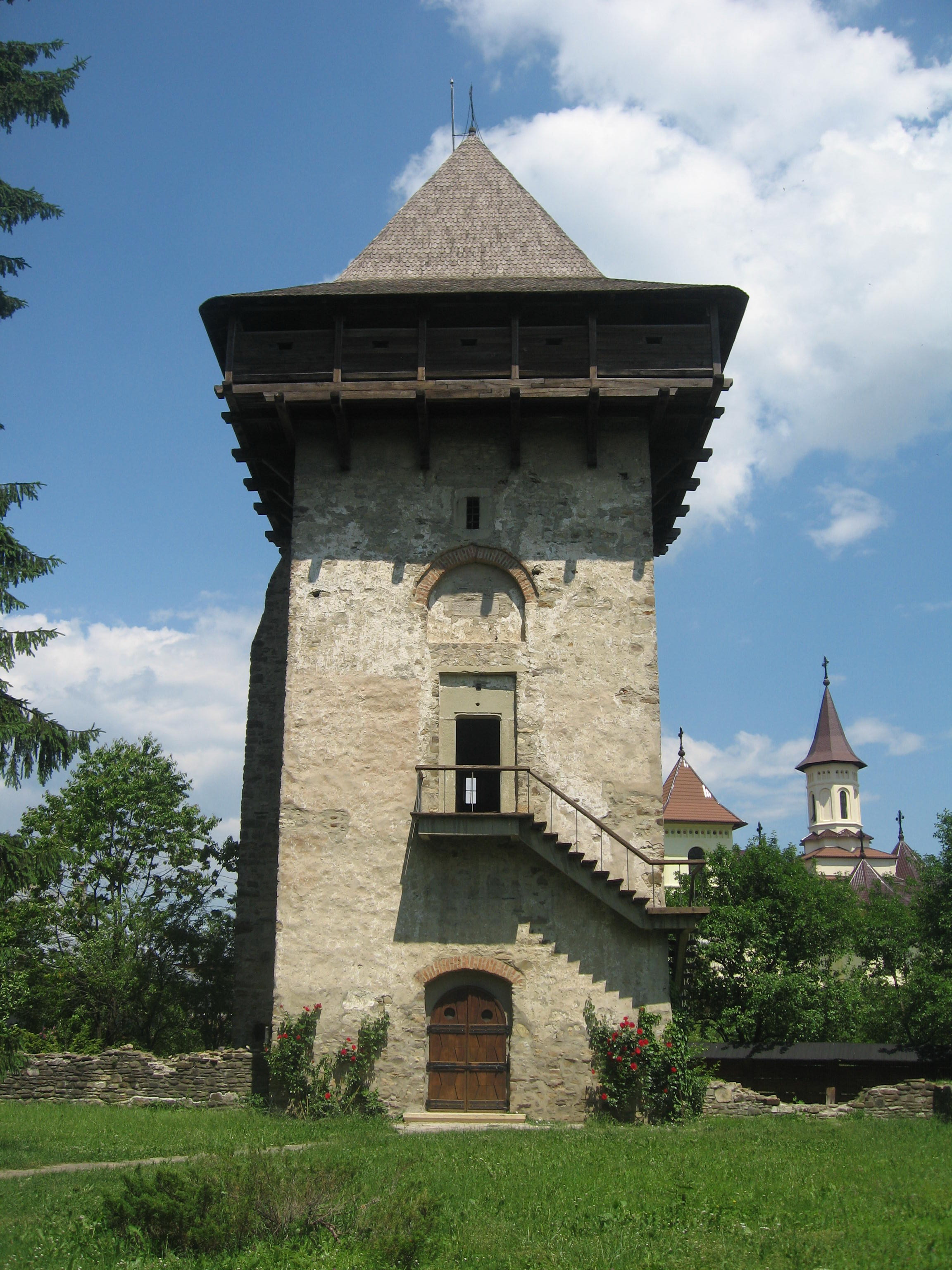 Humor Monastery